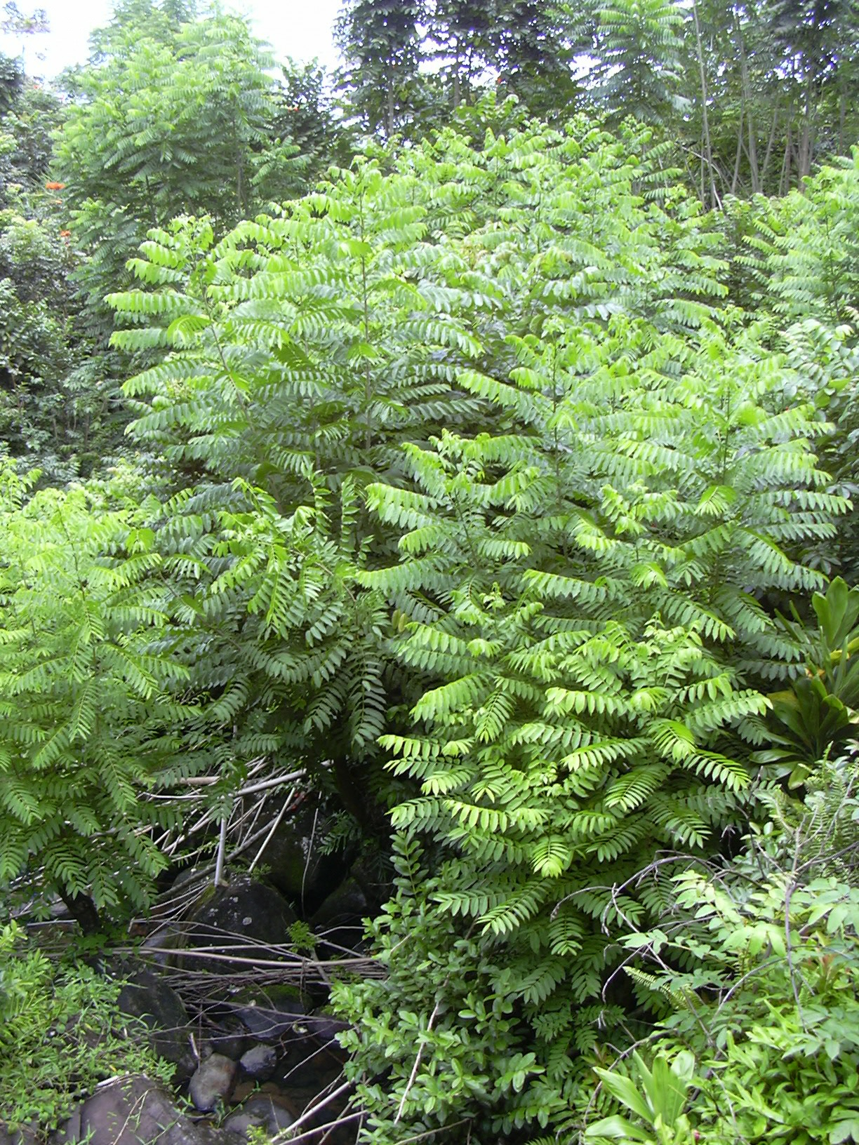 Cedrela odorata (habit). Location: Maui, Hana Hwy